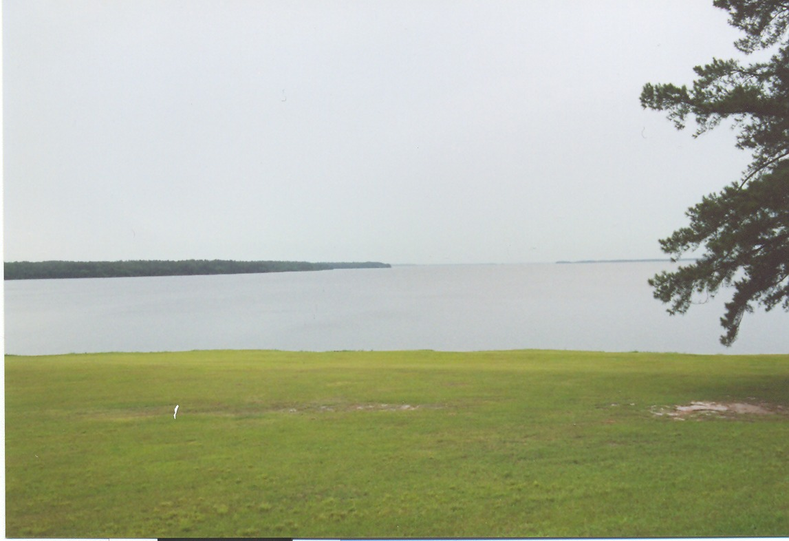 Ross Barnett Reservori near Natchez Trace Parkway Photo by Jan Kronsell, 2002